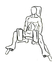 an exercise of thigh